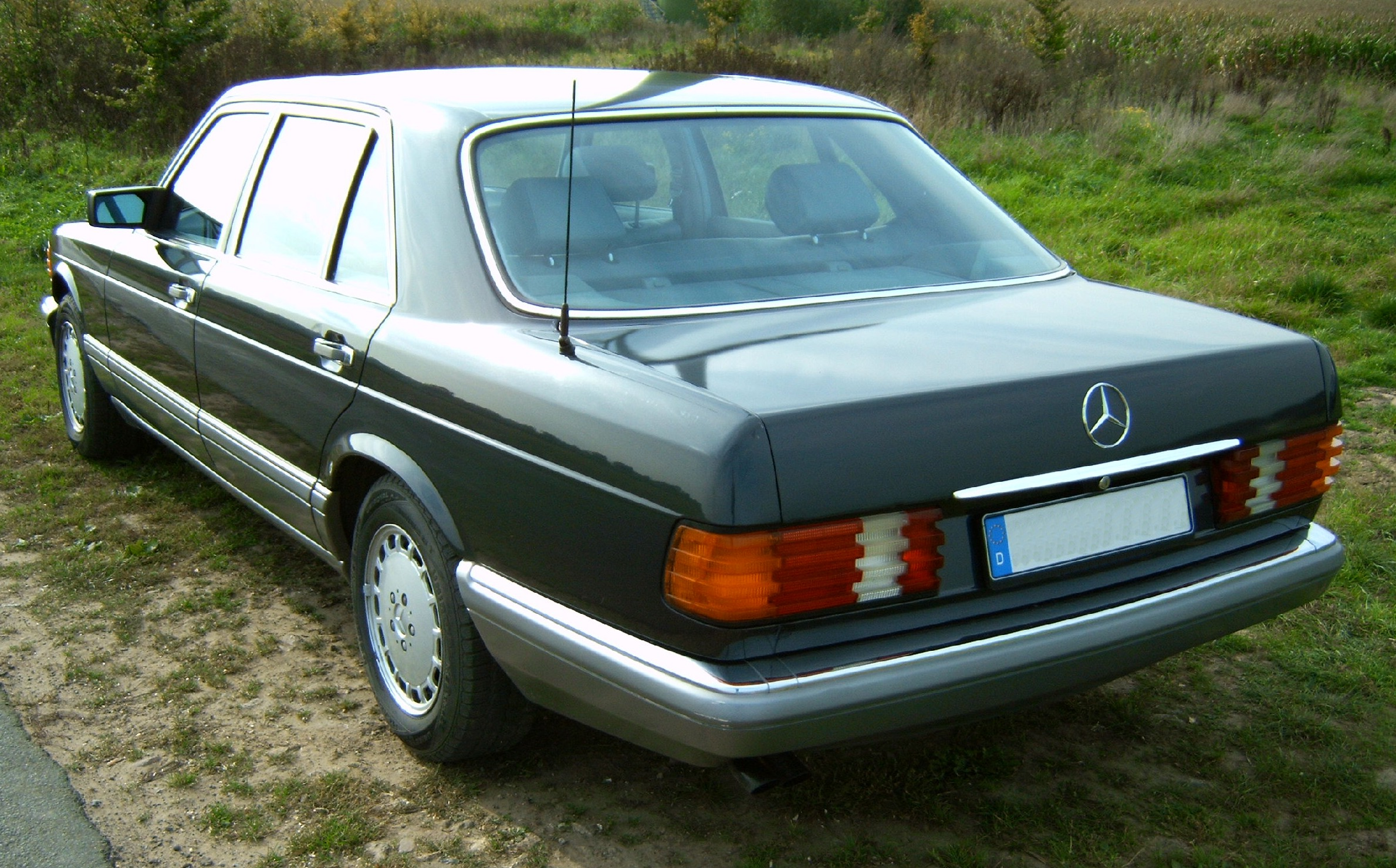 Mercedes-Benz W126 500SEL photographed in Germany.